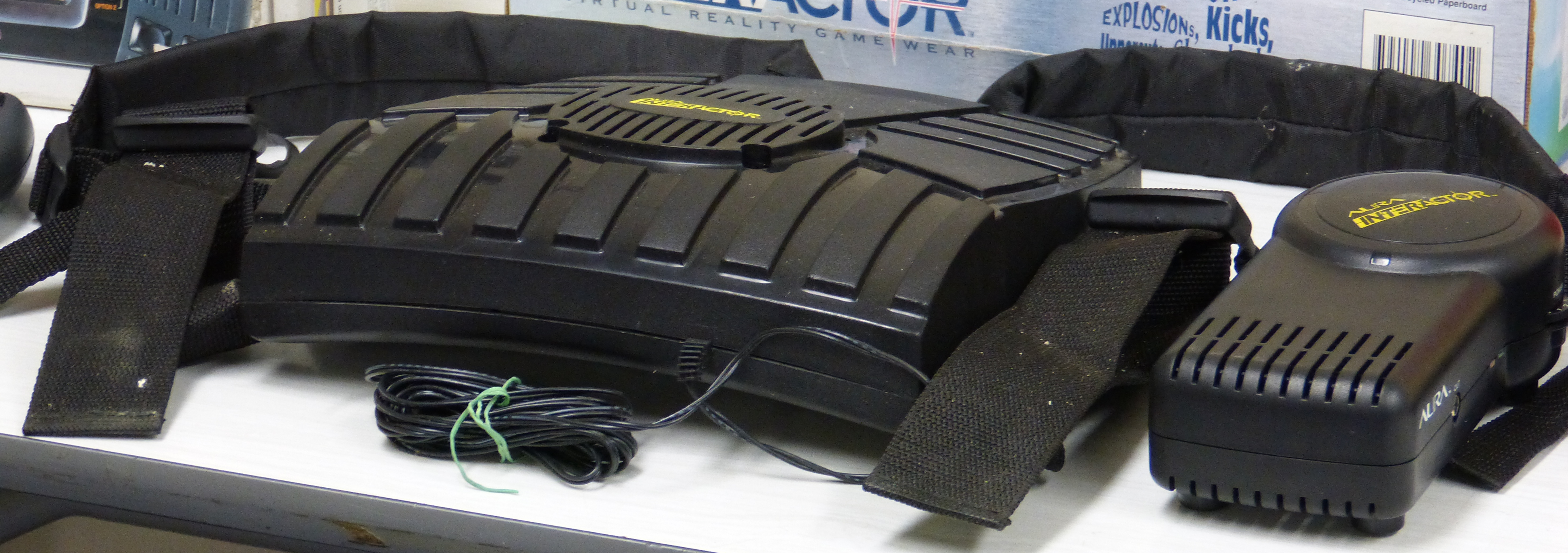 A photo of an Interactor force-feedback vest. This vest was manufactured by Aura Systems, Inc. and would take an audio signal from a game console or PC or other device. The vest's hardware would process the audio signal and convert the lower frequencies into vibrations, jolts, and other similar physical sensations for the wearer. (See "ICON: The Digital Underground" in Spin magazine, October 1994, pg. 85.)